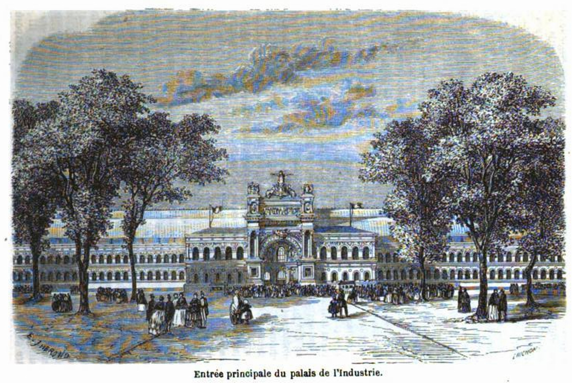 Main entrance of Palais de l'Industrie